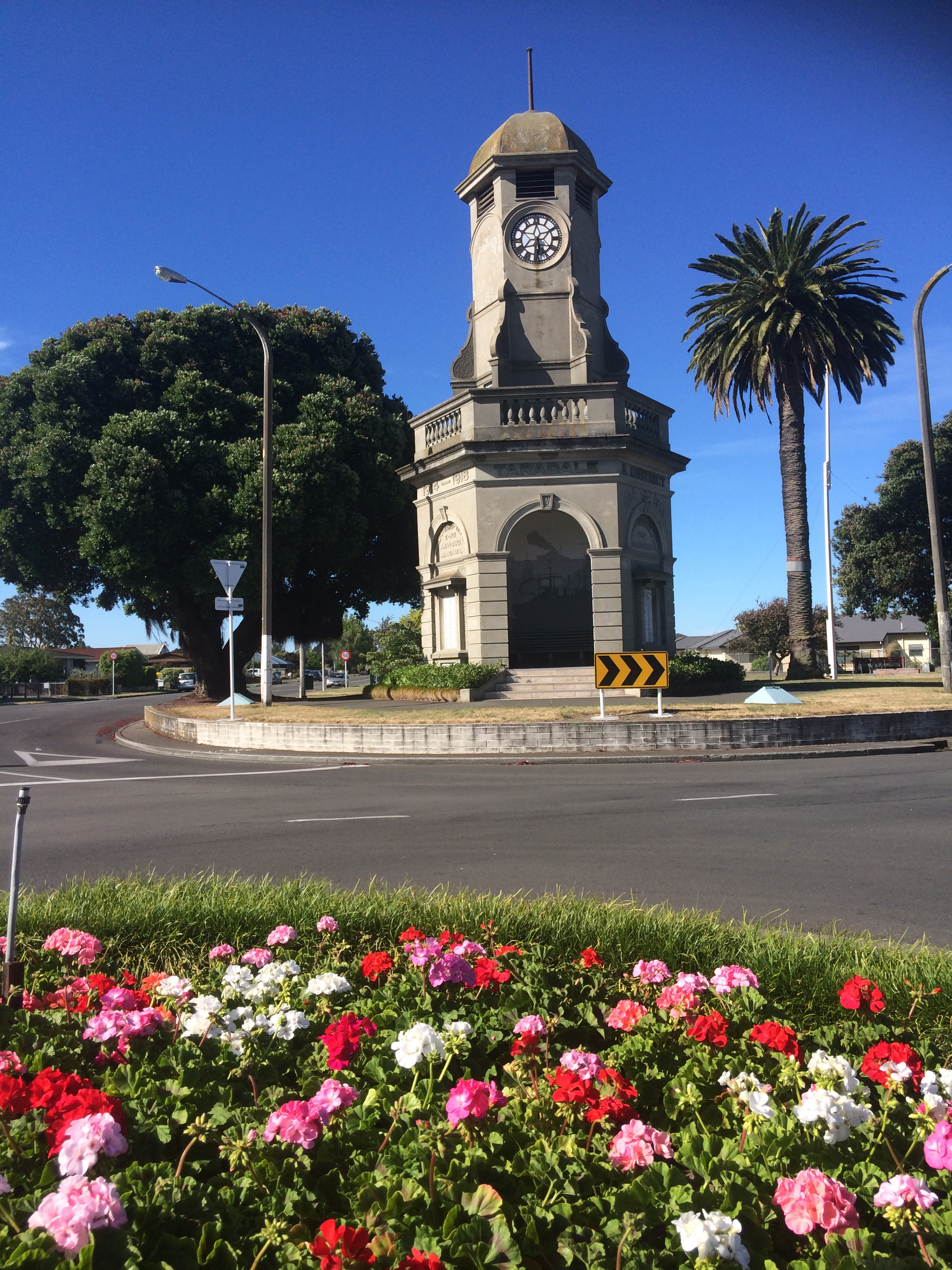 View of the Taradale Clocktower from the roundabout at the end of December in summer, Napier, New Zealand